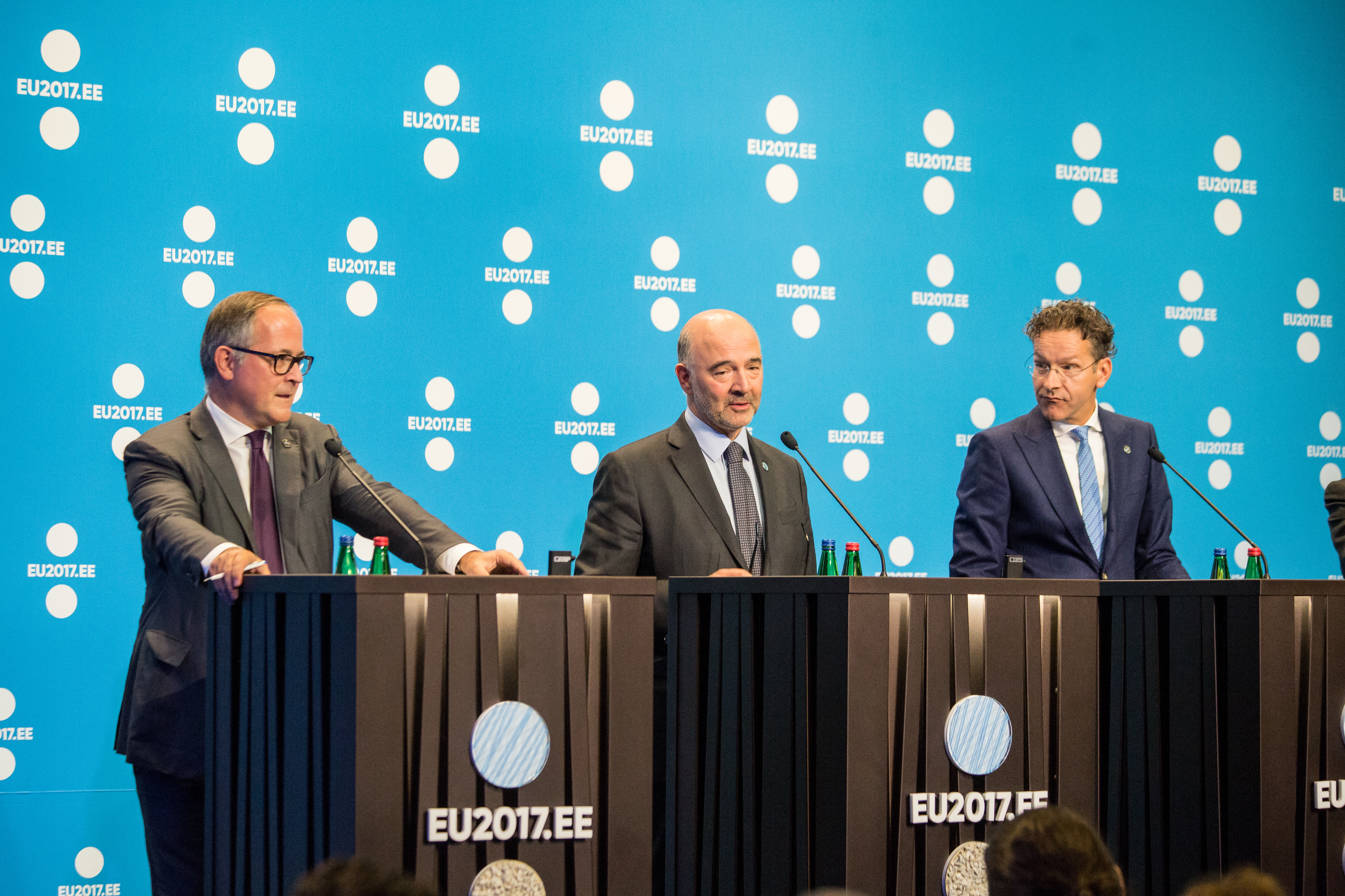 (l-r) Benoît Cœuré, Member of the Executive Board, ECB, European Central Bank; Pierre Moscovici, European Commissioner for Economic and Financial Affairs, Taxation and Customs; Jeroen Dijsselbloem, President of the Eurogroup